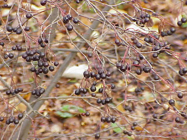 Species: Aronia prunifolia Family: Rosaceae Image No. 2